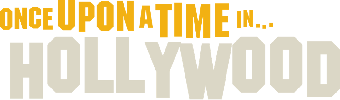 Logo for the 2019 film Once Upon a Time in Hollywood.